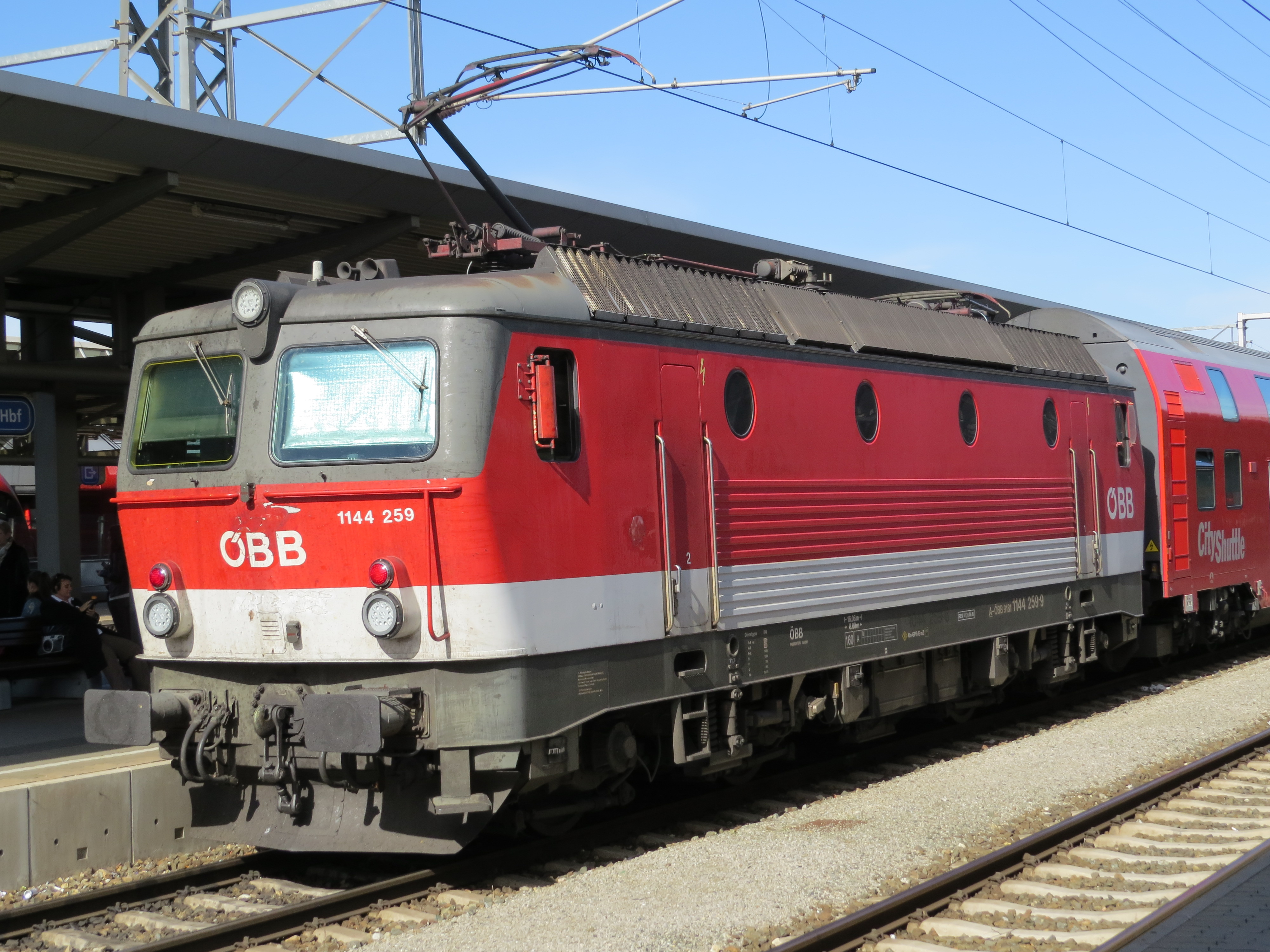 ÖBB 1144 259-9 at Wiener Neustadt Hauptbahnhof